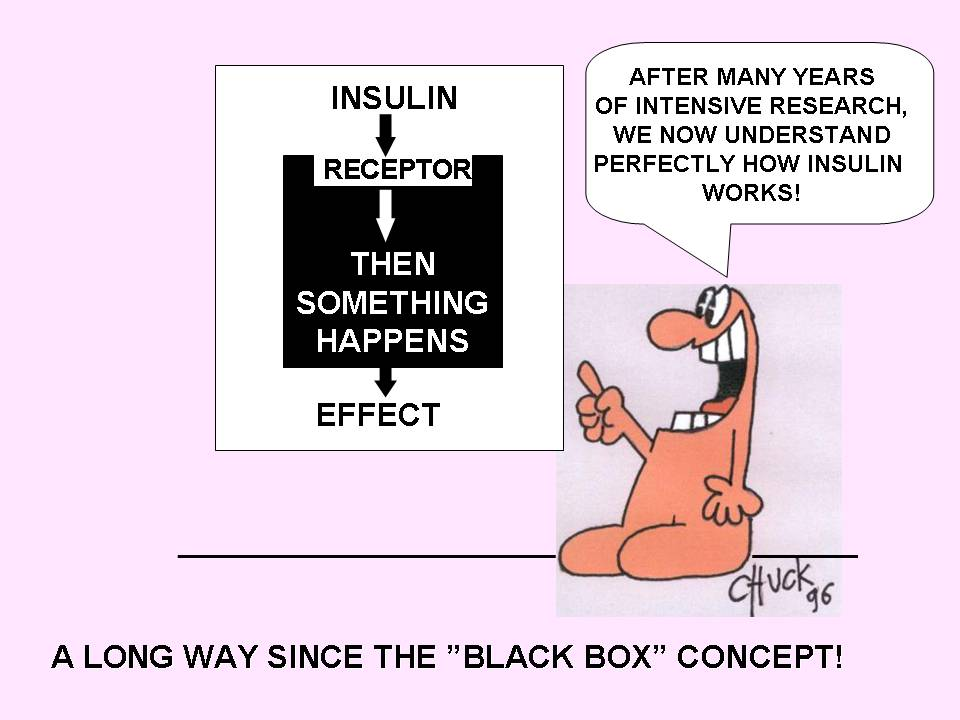 A colored satirical cartoon about the so-called "black box" concept of insulin action.